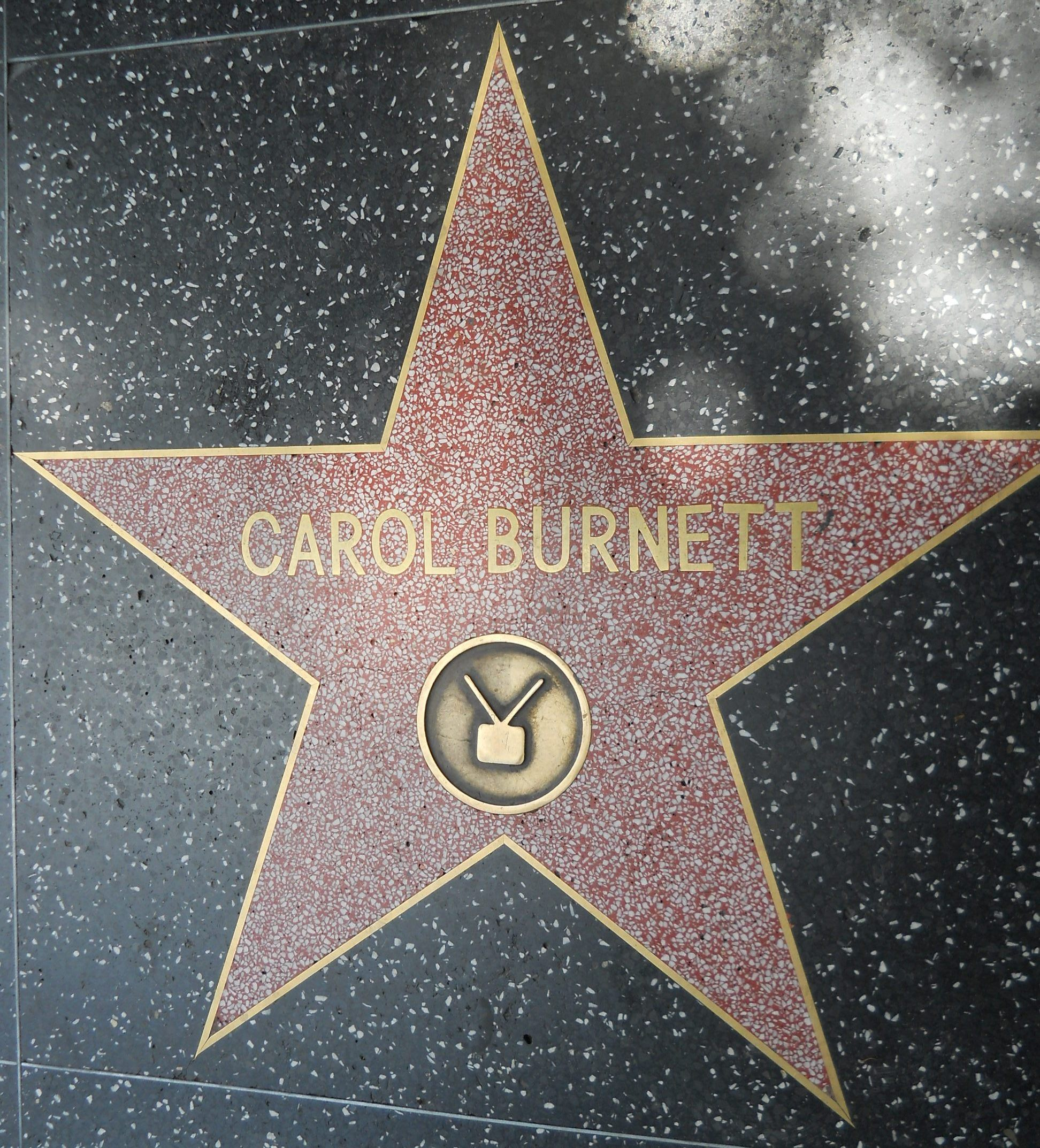 Carol Burnett's star on the Hollywood Walk of Fame at 6439 Hollywood Blvd. It is in front of the Hollywood Pacific Theatre, formerly the Warner Hollywood Theatre, where she was fired from a job as an usherette in 1951.